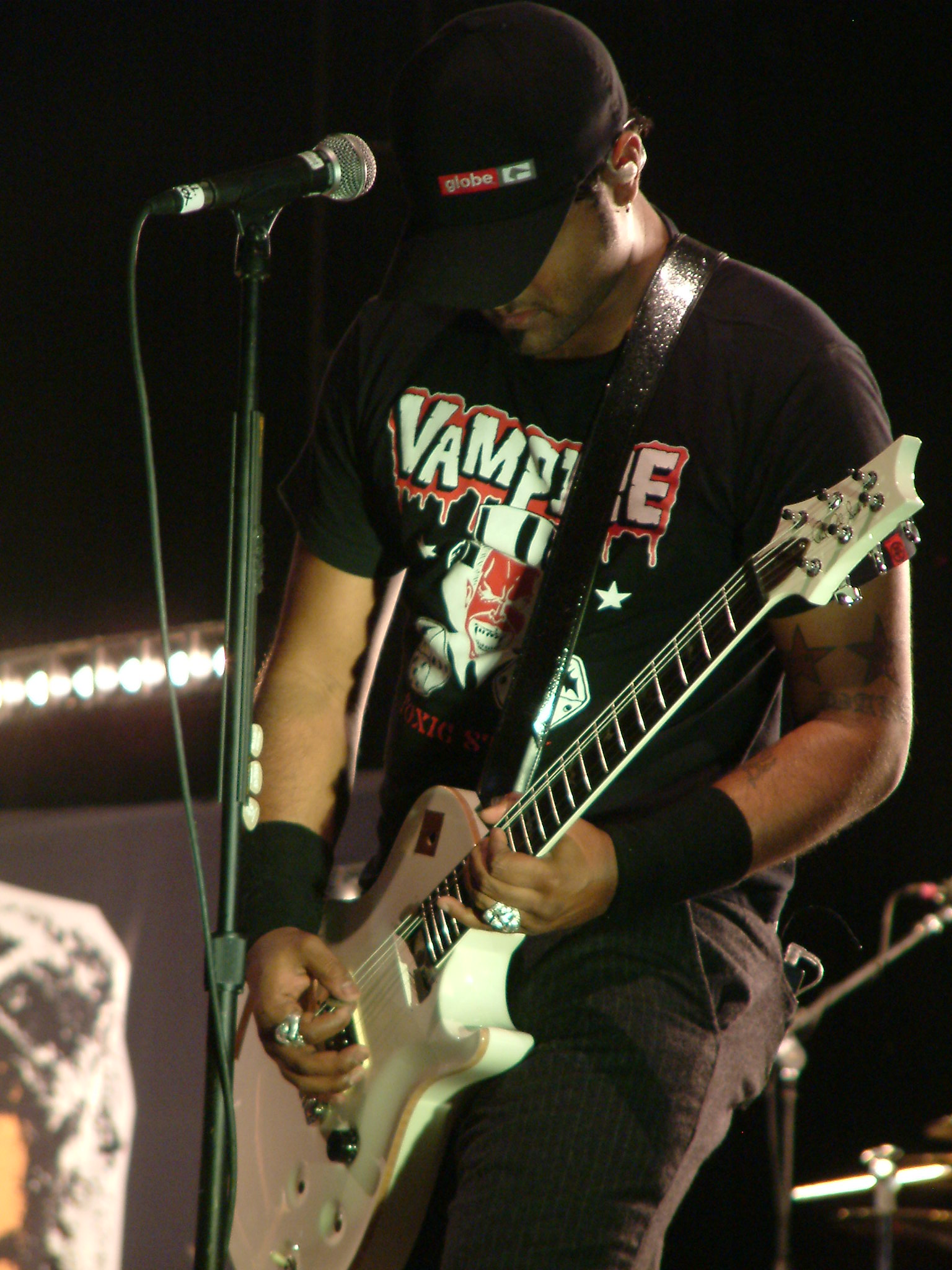 Dave Baksh playing a white guitar at Ottowa Bluesfest.